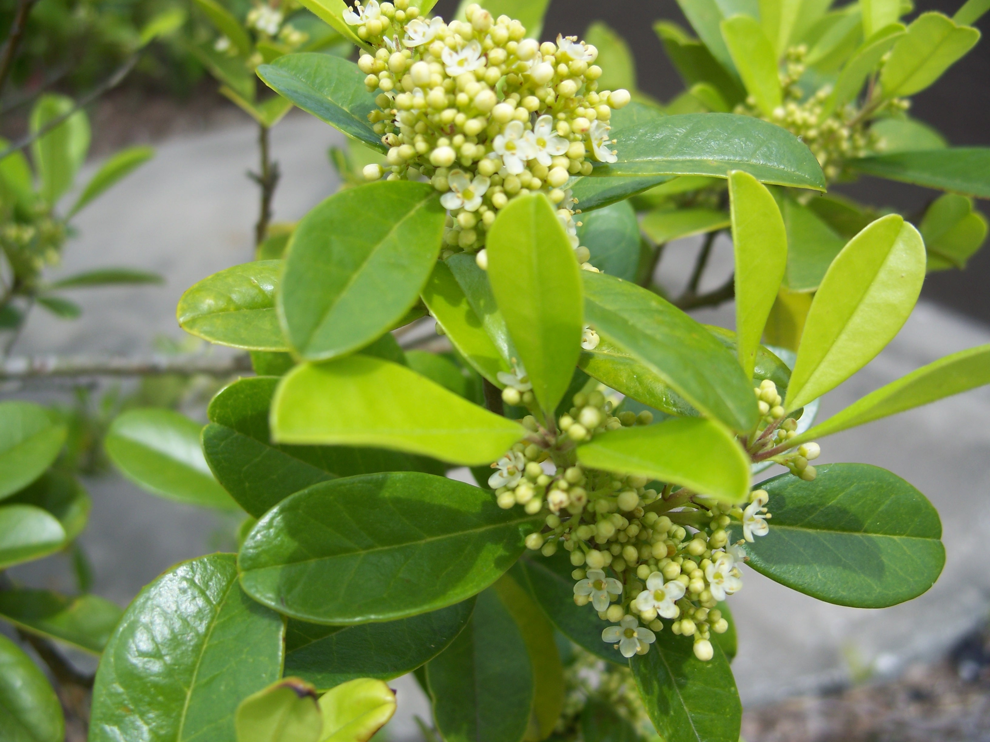 Dahoon Holly (Ilex cassine) in the Crystal River Preserve State Park, in Crystal River, Florida